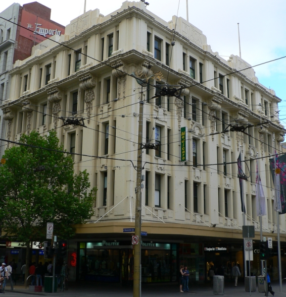 Leviathan Building. cnr Bourke and Swanston Streets, Melbourne